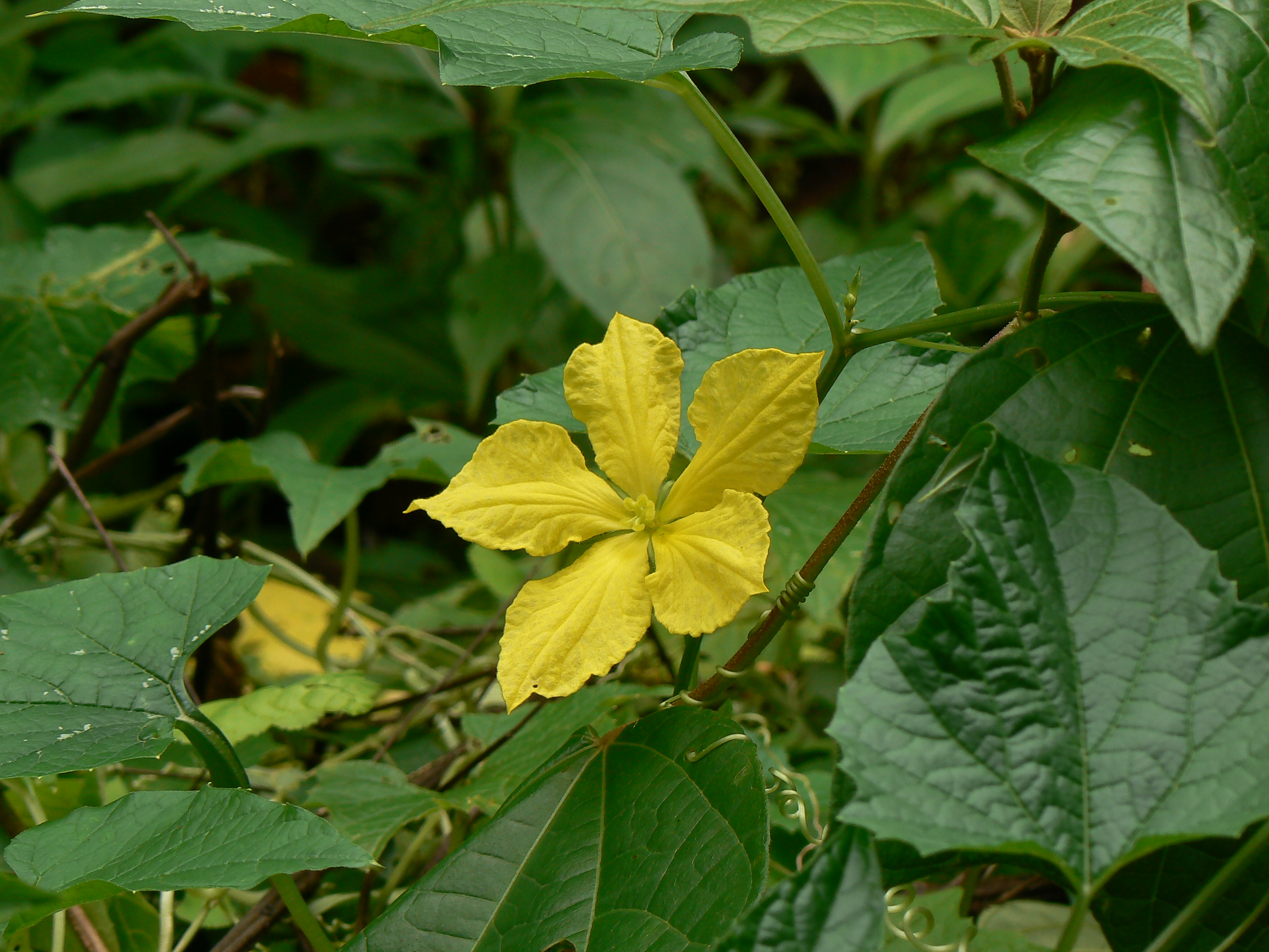 Cucurbitaceae (pumpkin, or gourd family) » Momordica dioica mo-MOR-di-ka -- from the word to bite, reference to the seeds which look bitten dy-oh-EE-kuh -- meaning, male and female flowers on separate plants commonly known as: spine gourd, teasle gourd • Assamese: avandhya • Gujarati: katwal • Hindi: बन करेला ban karela • Kannada: karchi-balli, maduvaagala • Malayalam: ben-pavel, erimapasel • Marathi: करटोली kartoli • Sanskrit: कर्कोटकी karkotaki, कर्कोटी karkoti • Tamil: palupakarkoti • Telugu: అడవికాకర adavikakara, ఆకాకర akakara Origin: South east Asia ... yellow flowers (4-6 cm) ... solitary on axillary stalks References: Flowers of India • Dave's Garden • M.M.P.N.D.